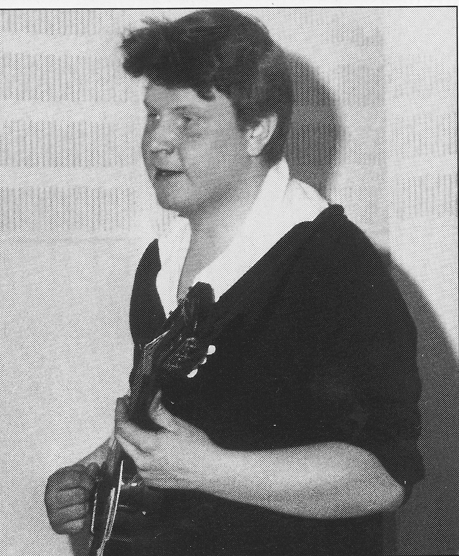 Jussi Raittinen, a Finnish vocalist